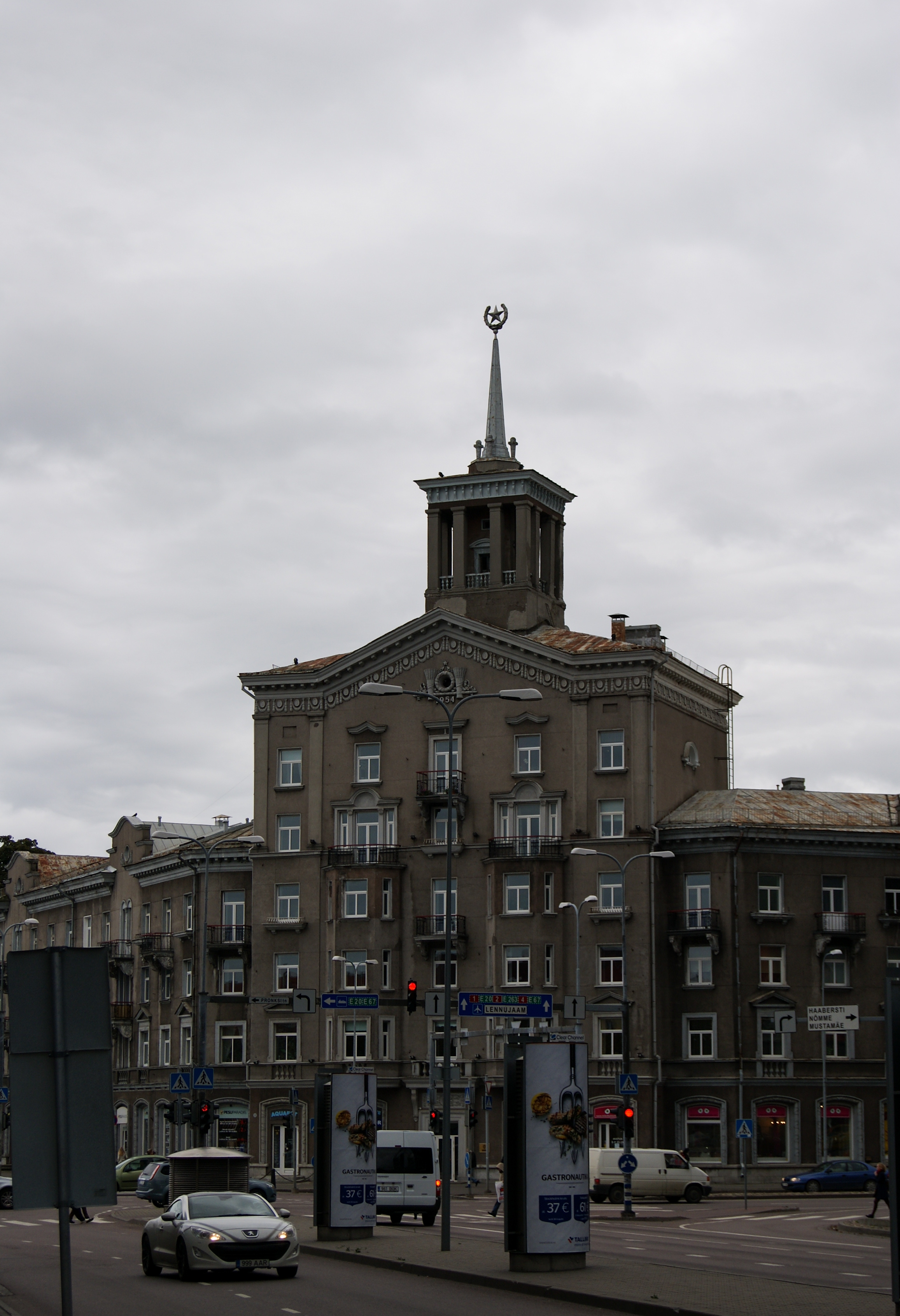 Soviet star building in Tallinn